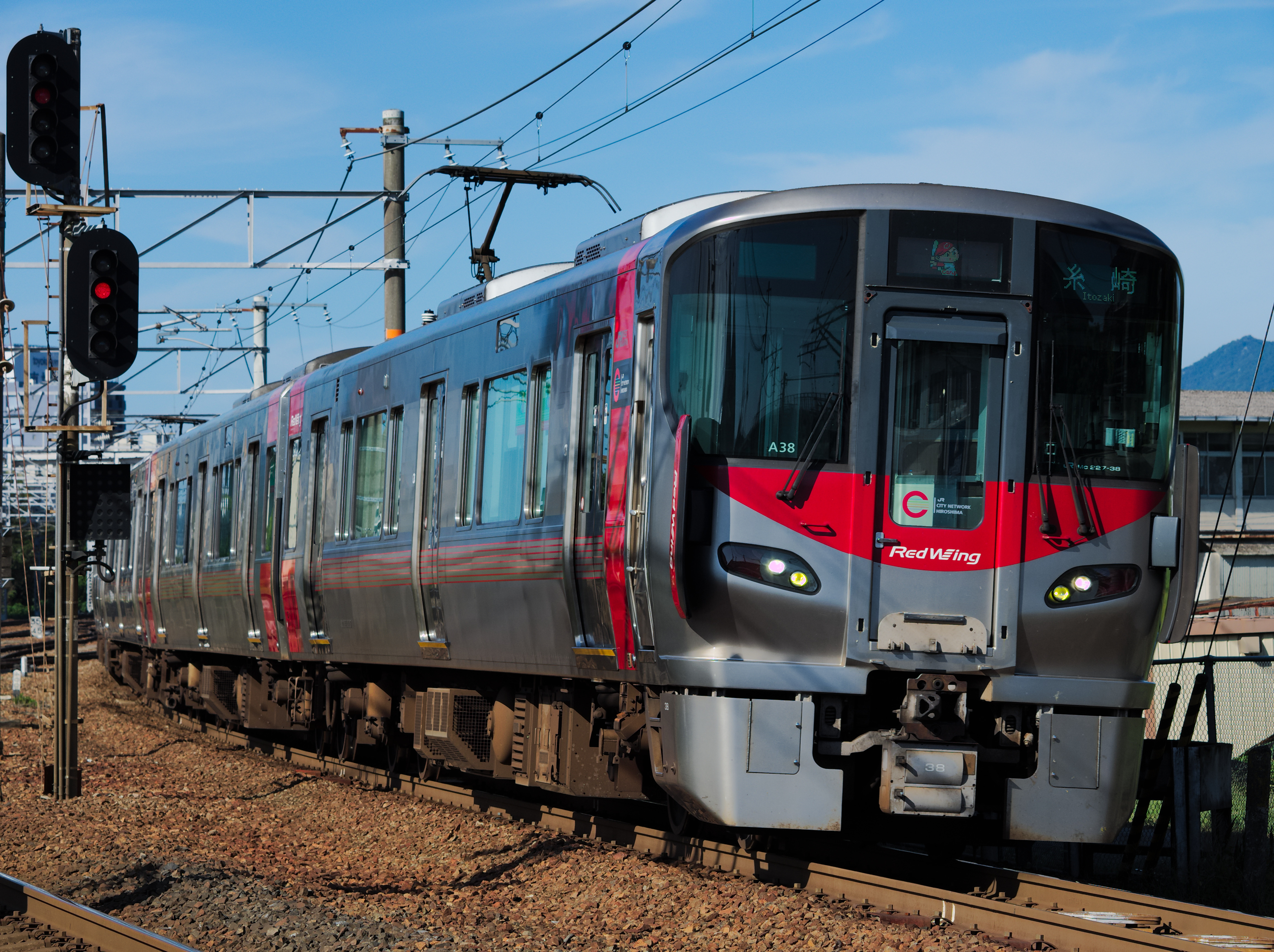 JR West 3-car 227 series EMU set A38 between Saijo and Nishi-Takaya stations on the Sanyo Main Line